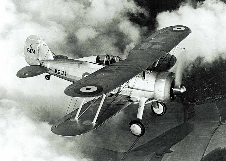 Photo taken by an employee of the British government prior to 1956. Original photo is found on: [1]